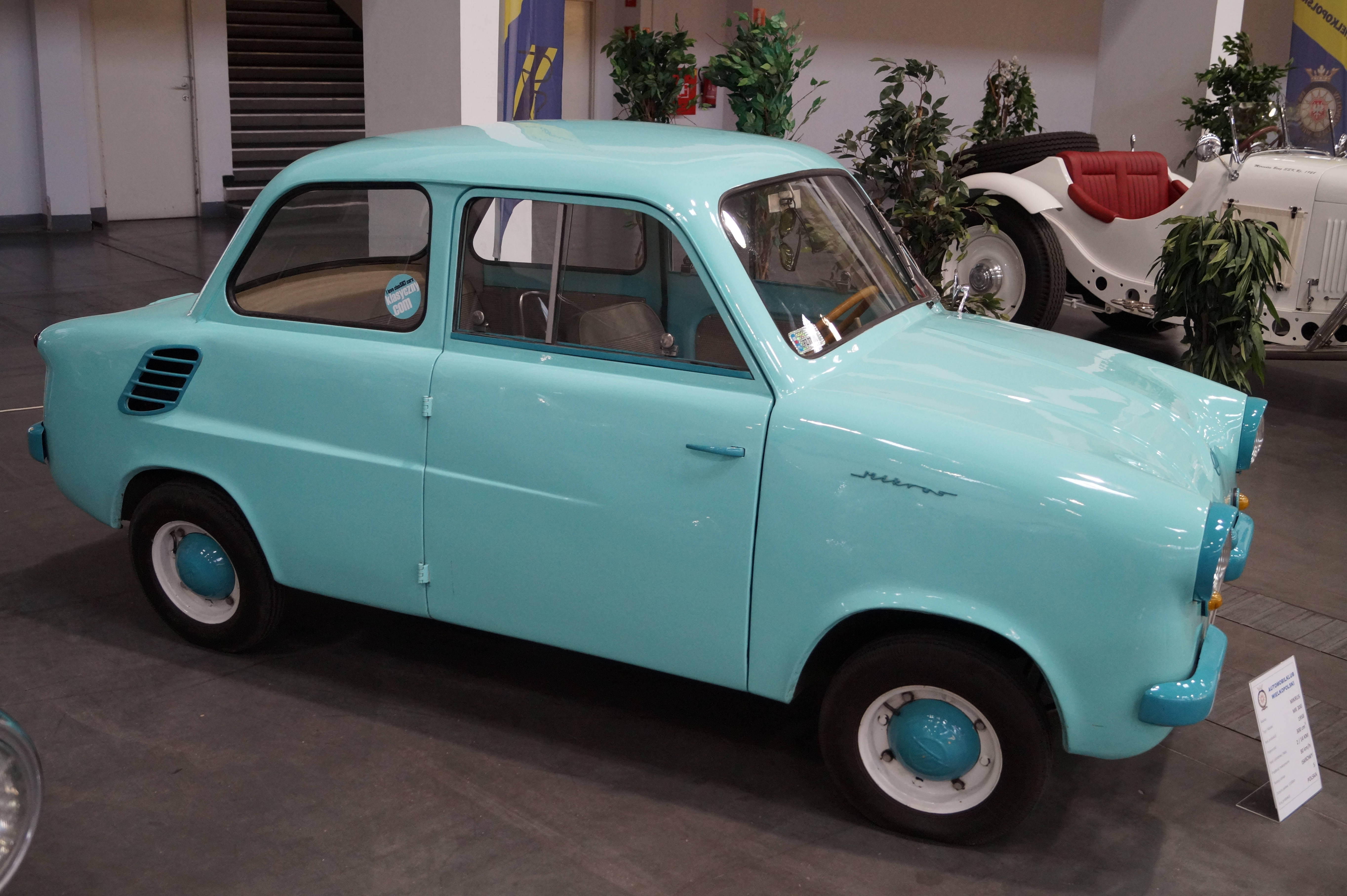 The making of this document was supported by Wikimedia Polska Association, within Wikigrant no. WG 2015-19. Zabytkowy Mikrus MR300 na Motor Show Poznań 2015